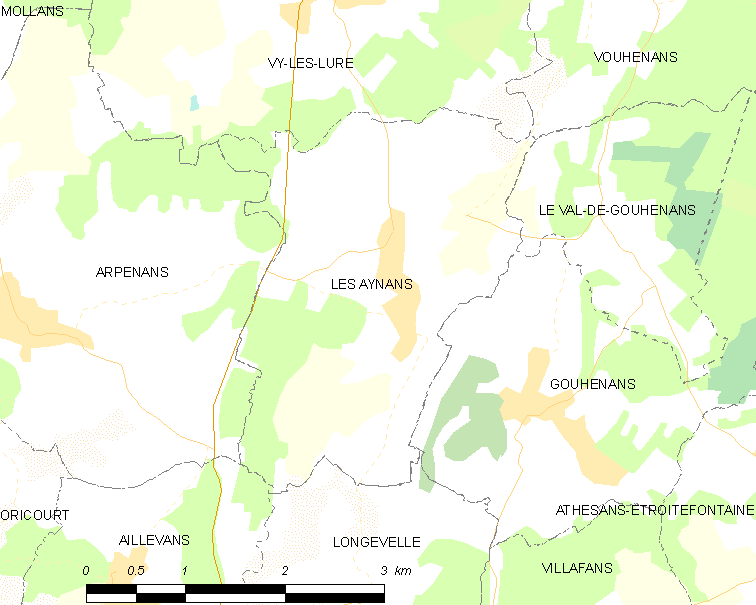 Map of French municipality